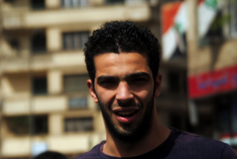 Singer Ramy Essam (who was beaten and tortured by the military police) in Tahrir Square